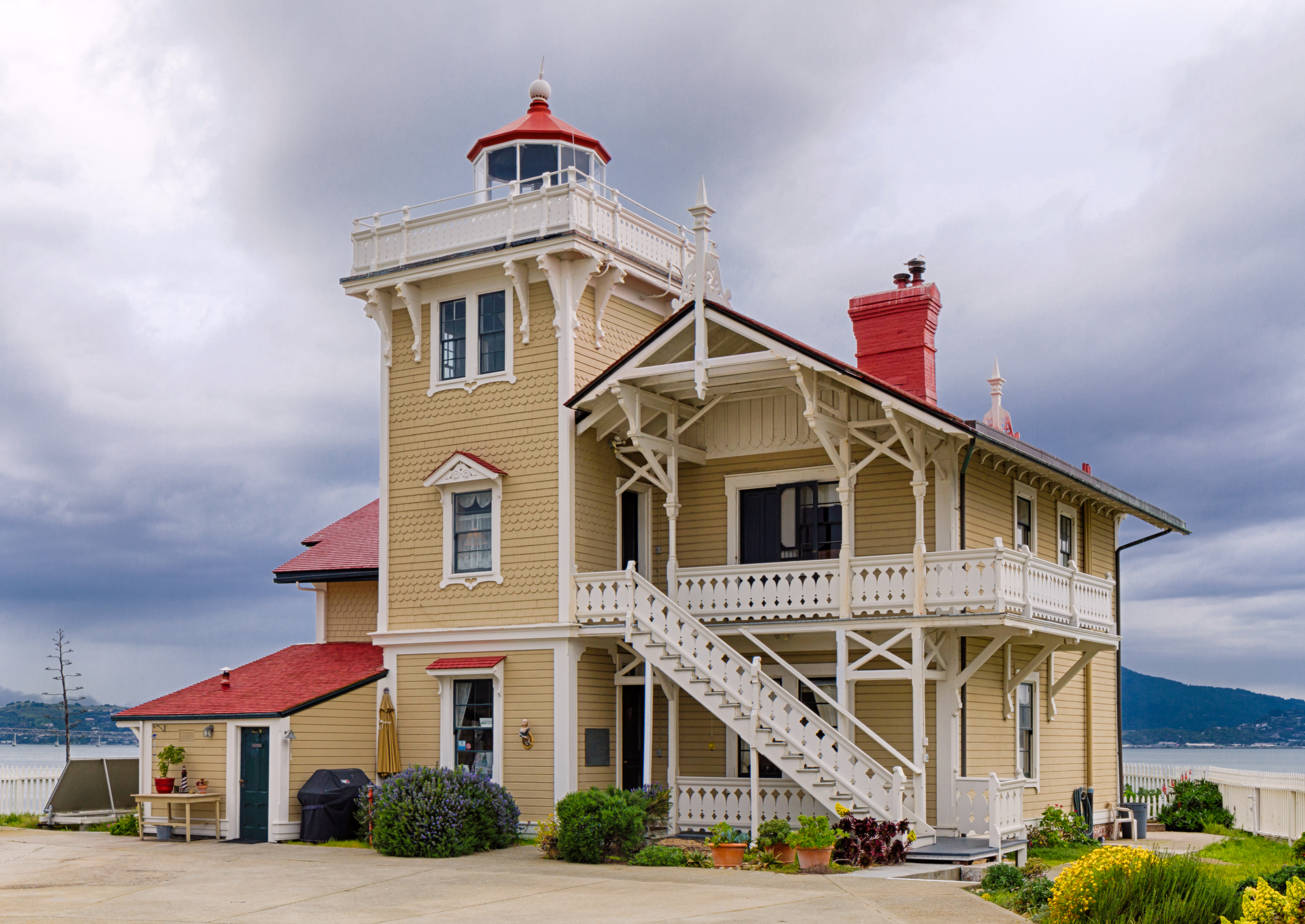 East Brother Light, near Richmond, California on a stormy evening in March 2013.